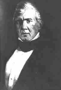 Major John Pollard Gaines (painting/photo by ?)